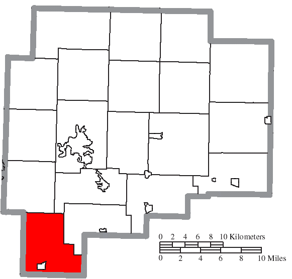 Map of the municipal and township boundaries of Guernsey County, Ohio, United States, as of the 2000 census, with the location of Spencer Township highlighted. Township borders are shown only in unincorporated areas in order to differentiate incorporated and unincorporated areas more clearly.